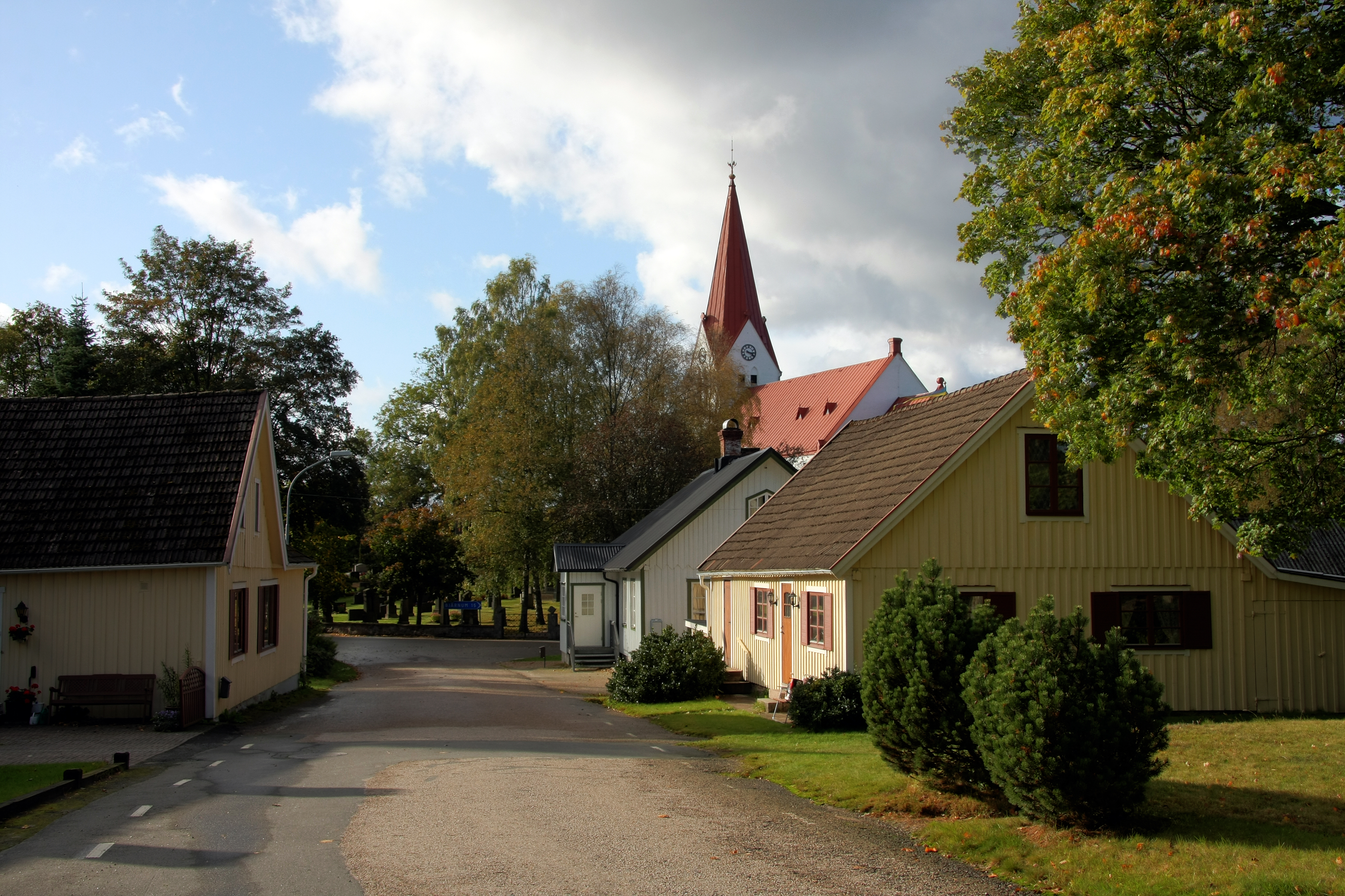 Swedish village Röke in Hässleholm Municipality, Scania.